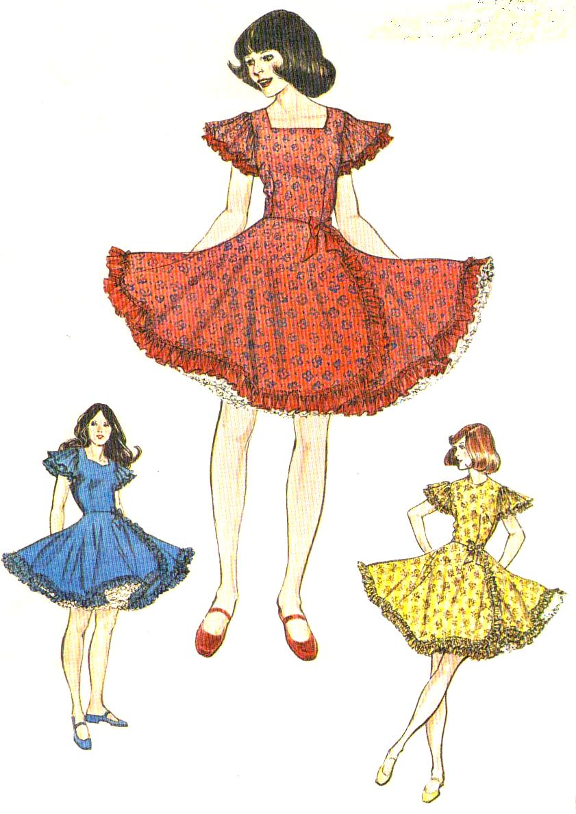 A "traditional" womens square dance dress in 3 colors: red, blue, and yellow. Note the very full skirt and petticoat.